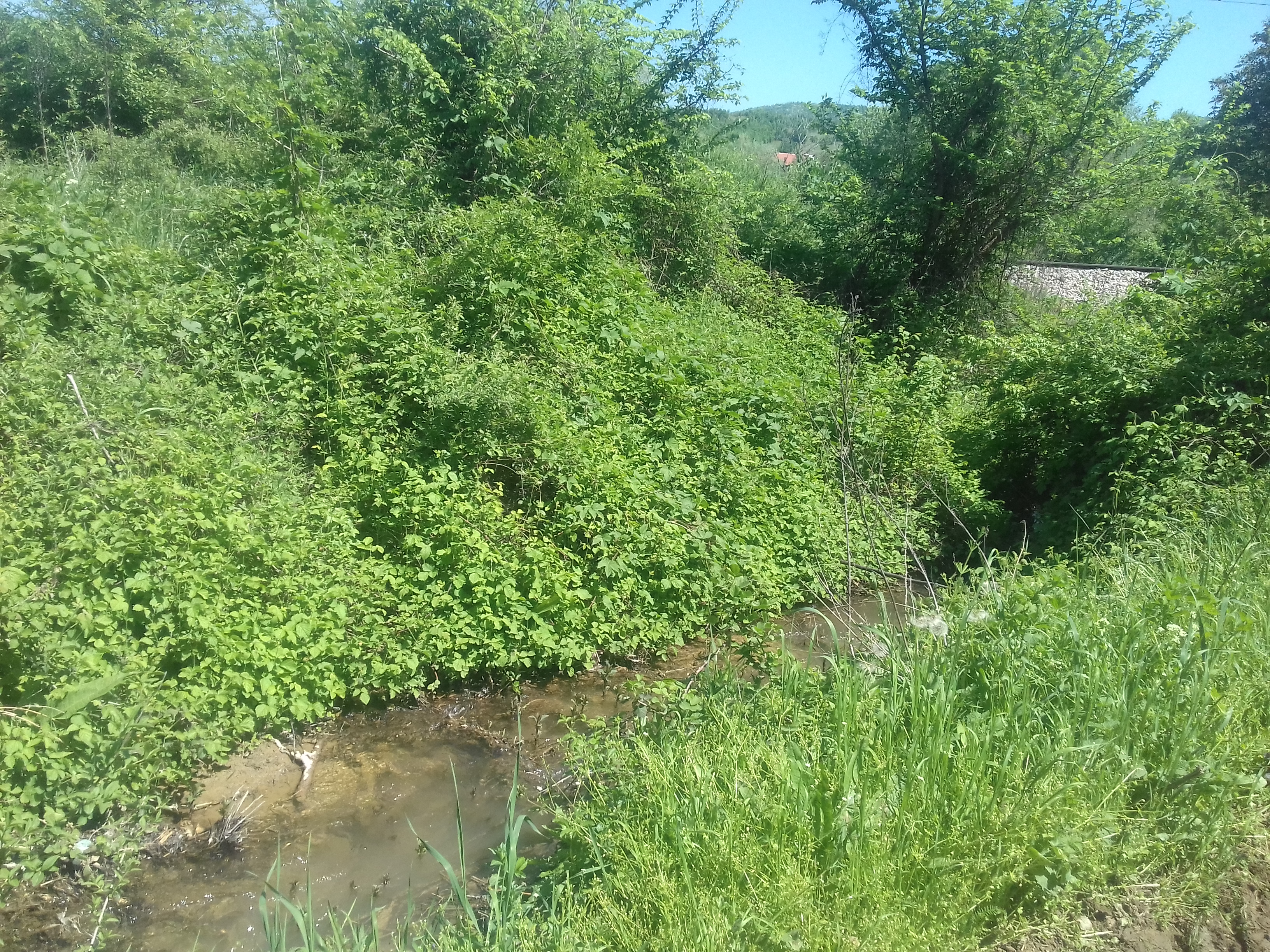 Babin Dol stream, Macedonia